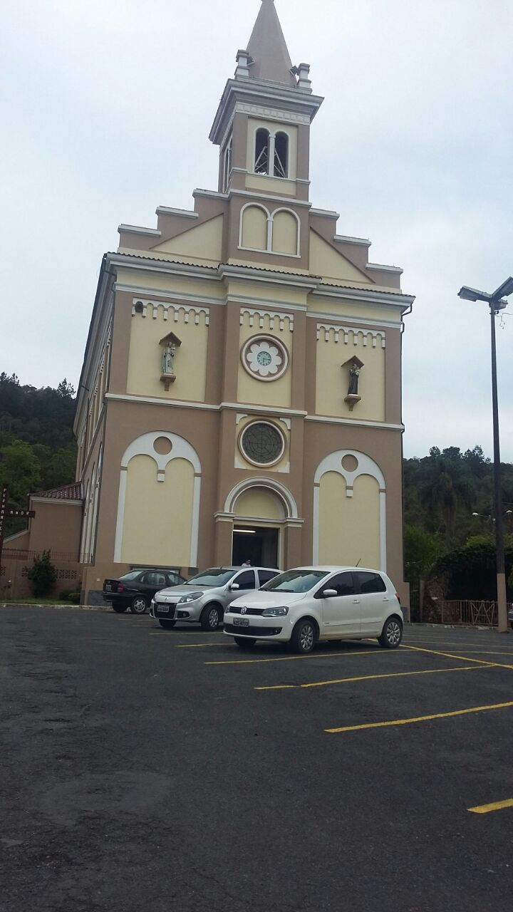 Parish of São Sebastião of Bateias in the municipality of Campo Largo, Paraná - Brazil